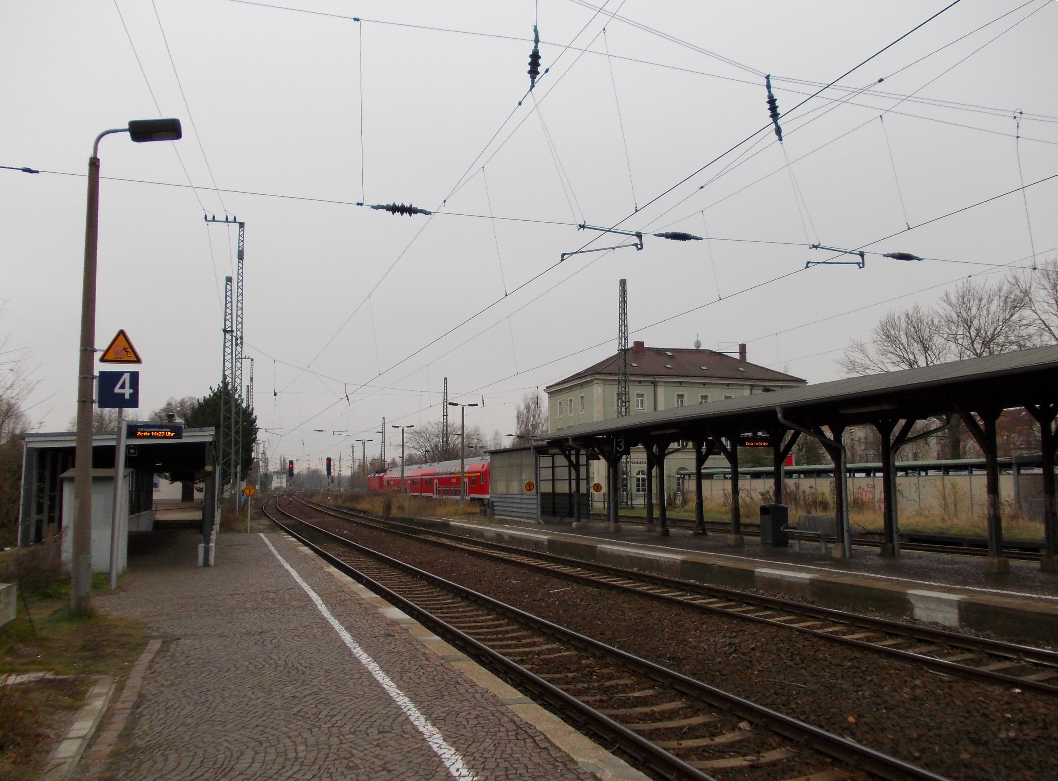 Neukieritzsch train station (Leipzig district, Saxony)